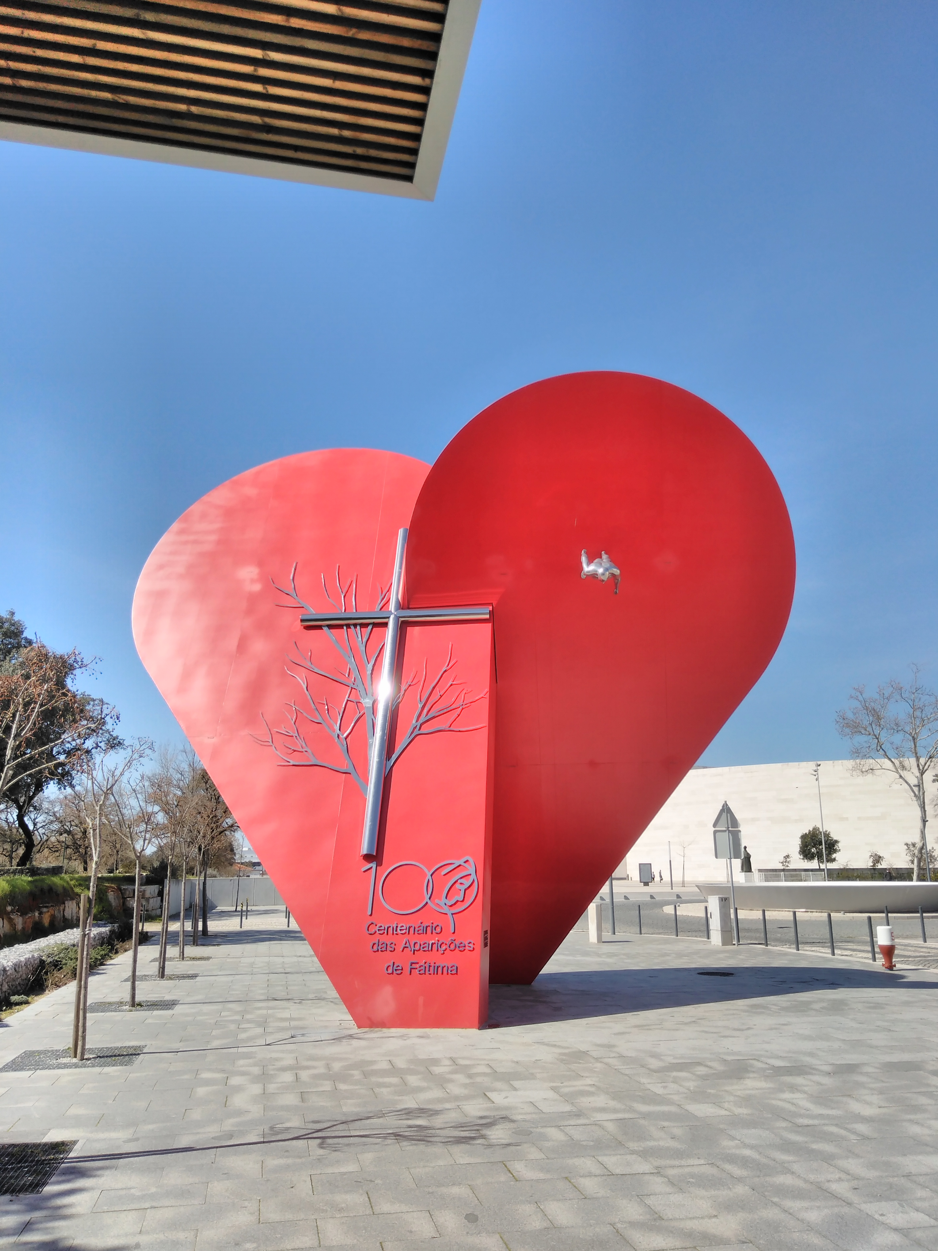 Designed by Fernando Crespo